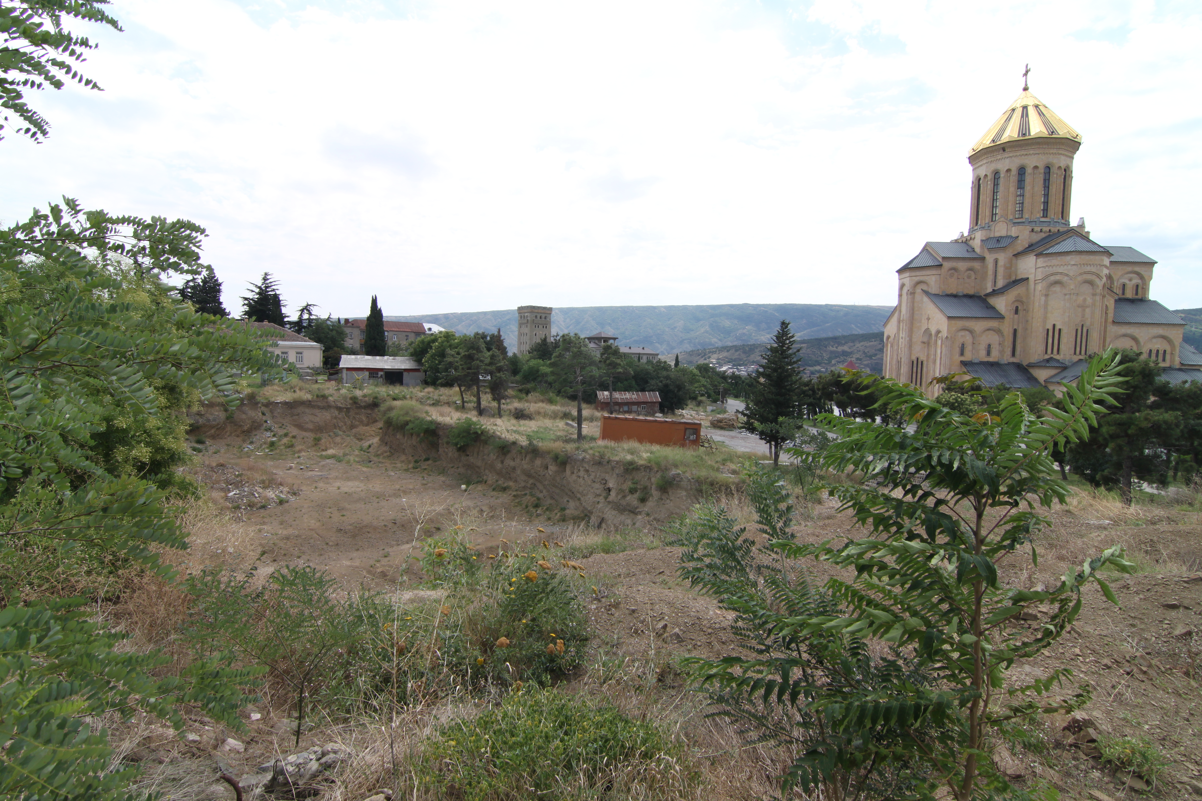 The excavation adjacent to the Armenian Pantheon of Tbilisi exposing some of the remaining tombs of the Khojivank Armenian cemetery. The Sameba Cathedral (right) was built on the grounds of the Armenian cemetery.